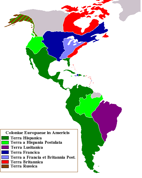 Altered version of commons image translated to latin